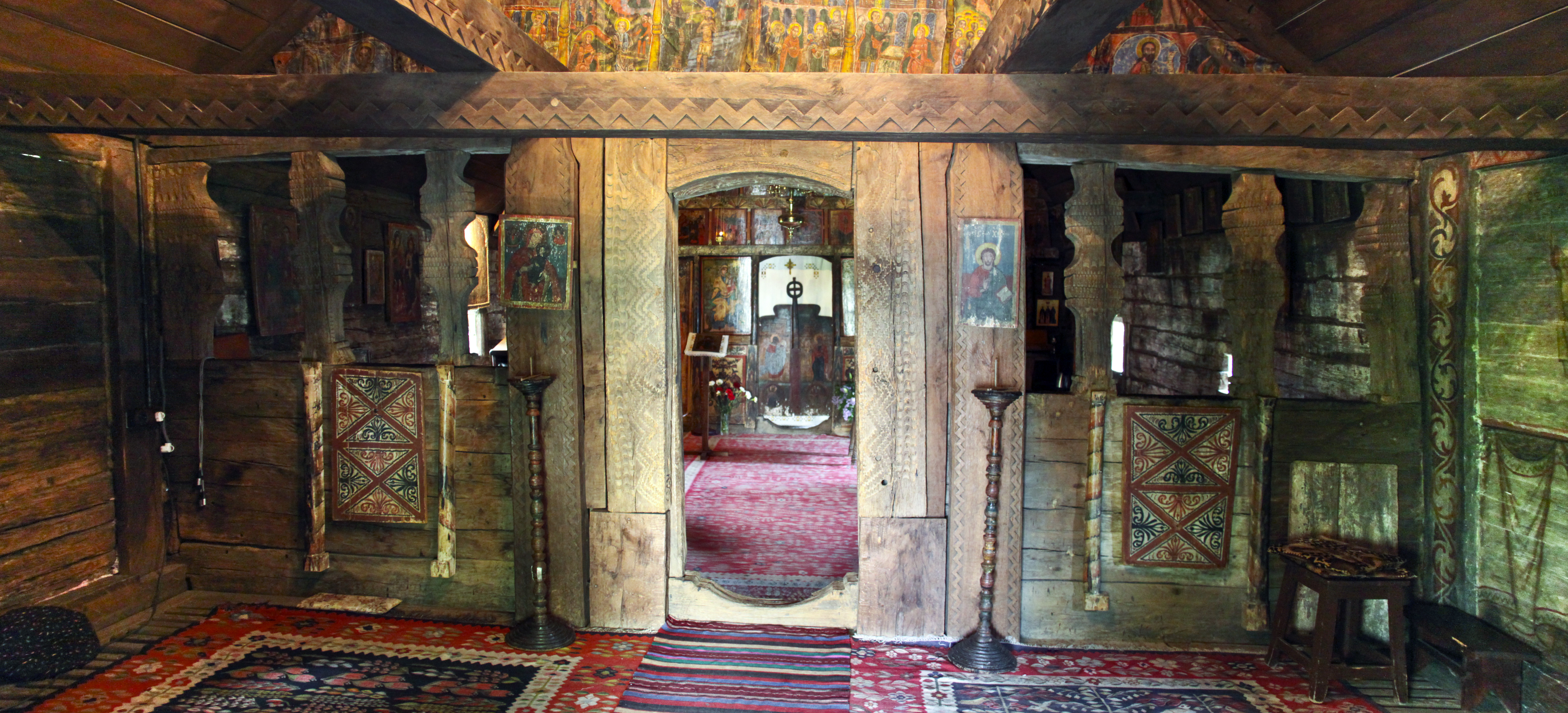 Craiova, Dolj county, Romania, the wooden church at the Mitropolitan seat, brought from Gorj county: the narthex.